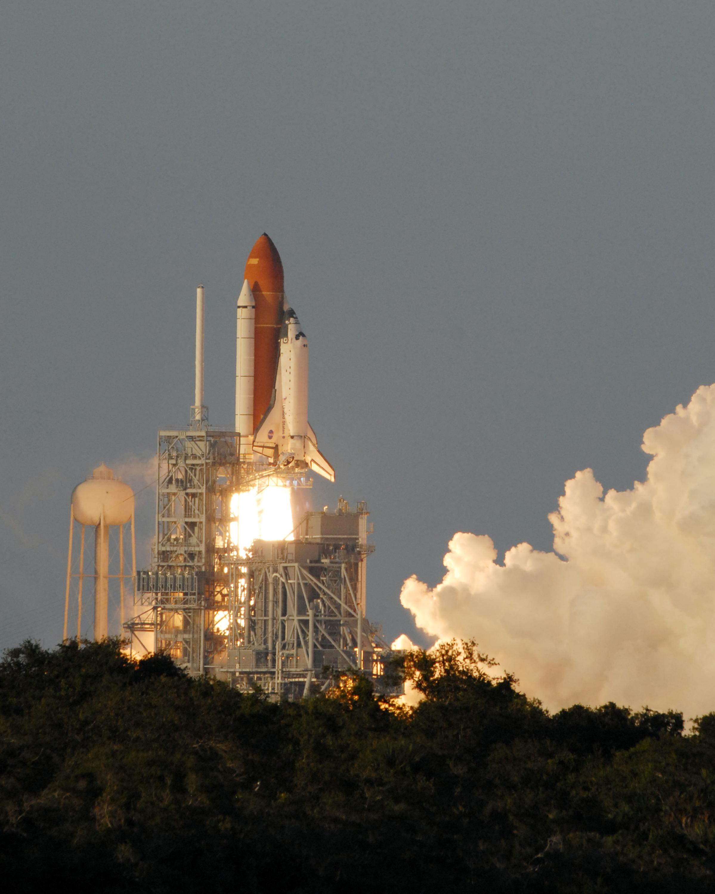 Space Shuttle Atlantis lifts off from Launch Pad 39A for STS-117 mission